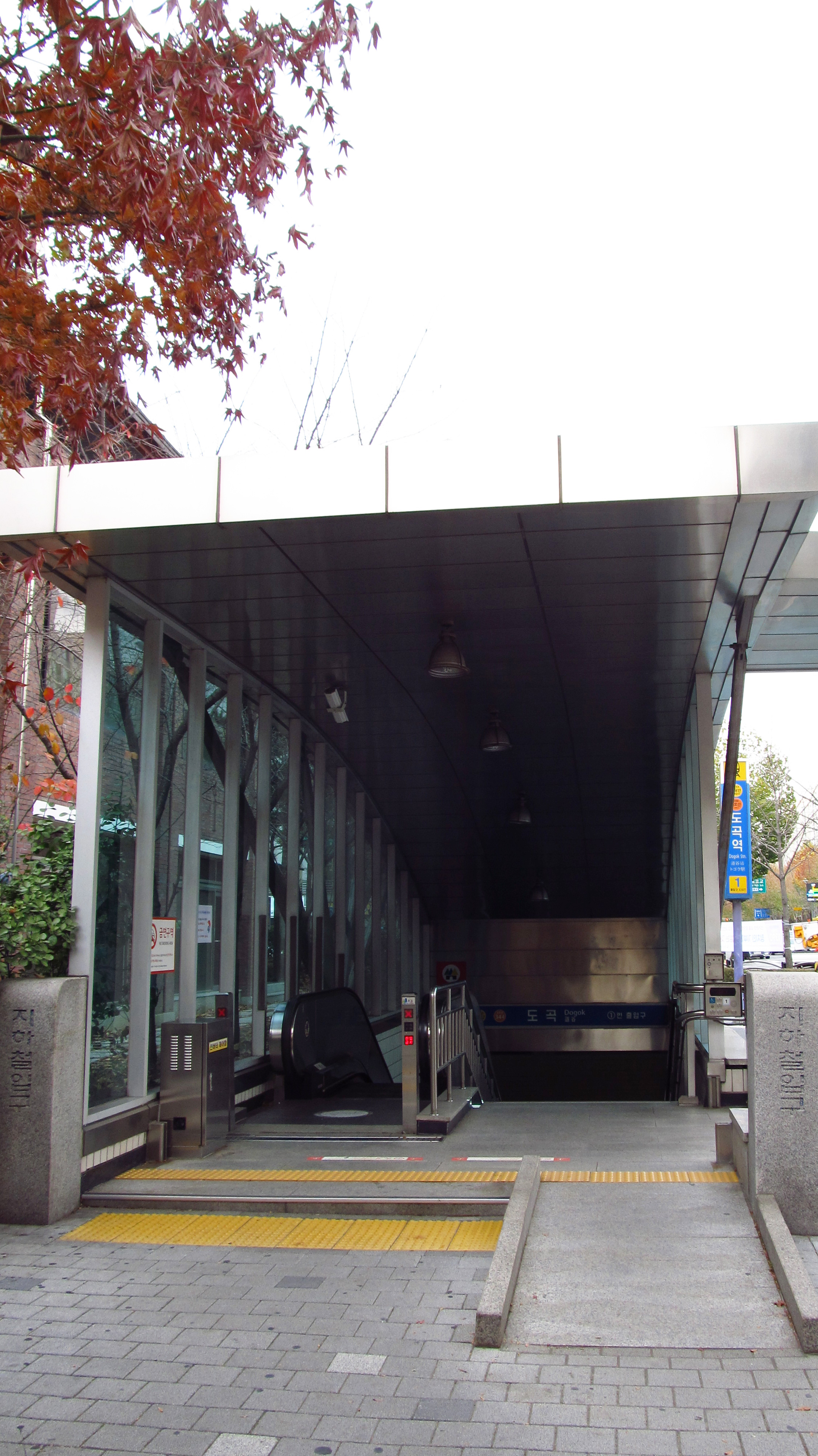 The no.1 entrance to Dogok Station on Bundang Line and Seoul Subway Line 3 in Gangnam-gu, Seoul, Republic of Korea(South Korea)